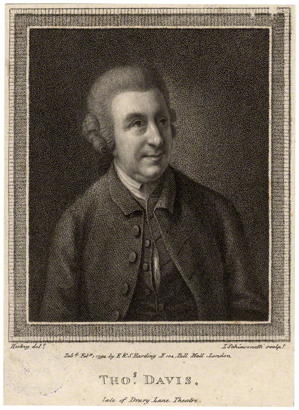 Portrait of Thomas Davies (c.1712–1785), Scottish actor and bookseller.